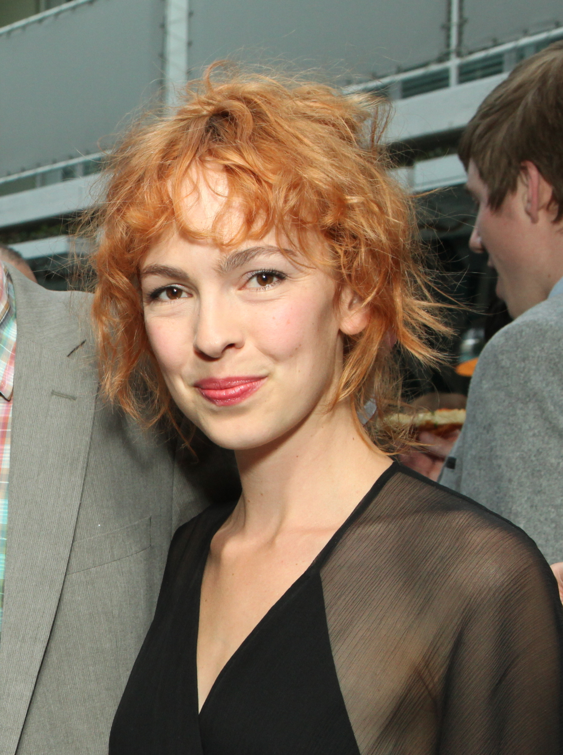 Brittany Allen at Canadian Film Centre 25th Anniversary Celebration in LA, 20 March 2013